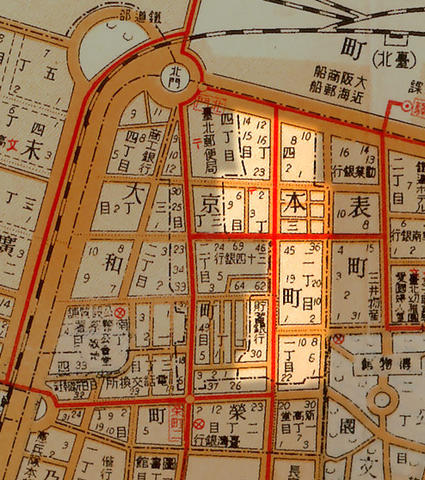 Scanning since 1920 during the Japanese occupation of the map over 50 years